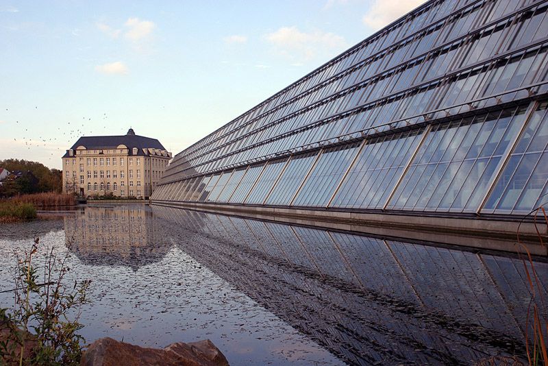 Science Park of the German city of Gelsenkirchen on the territory of the former coal mine Rheinelbe, in the background the former administration building of the mine.